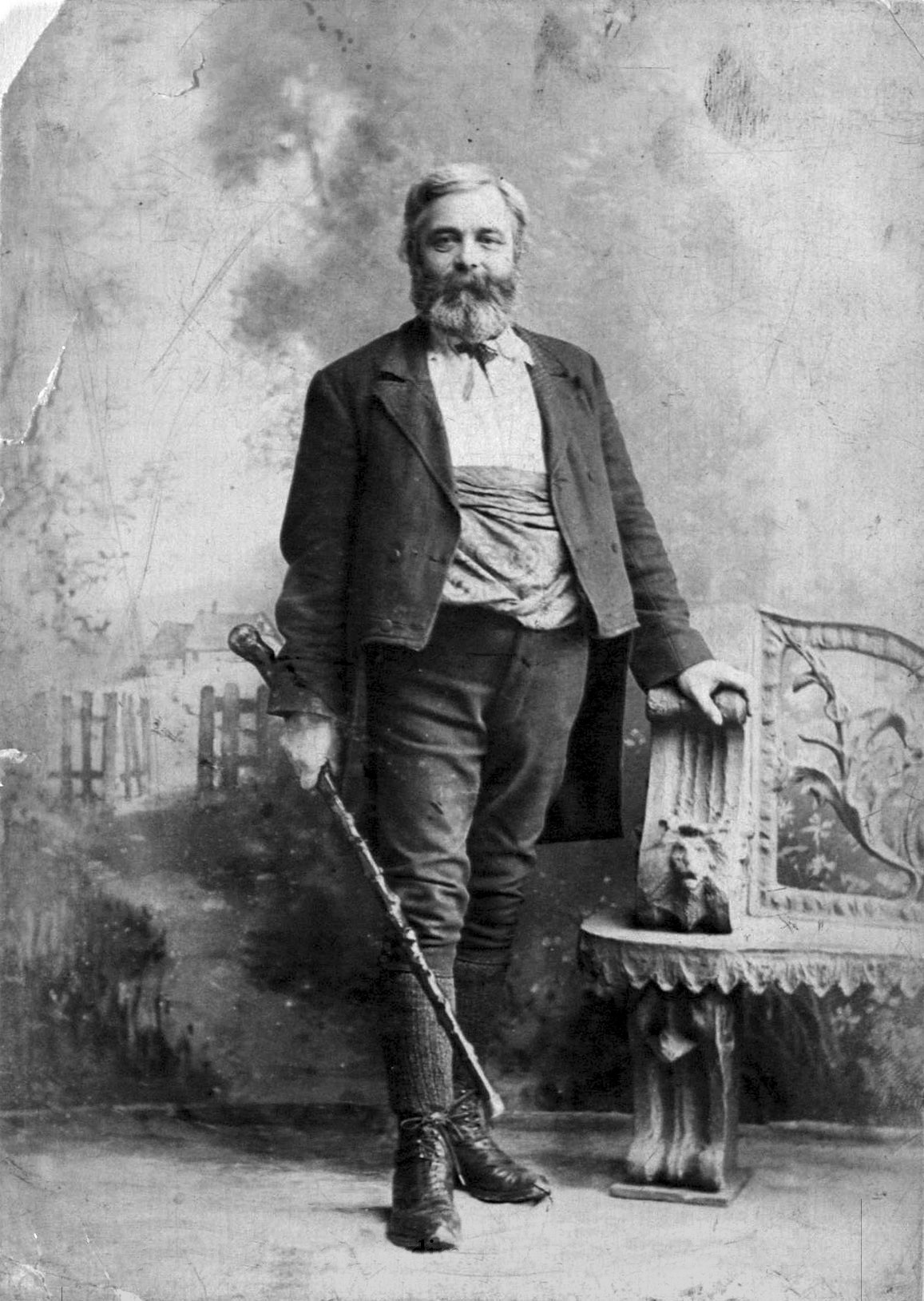 Photo of Michael Cusack, an Irish teacher and founder of the Gaelic Athletic Association.